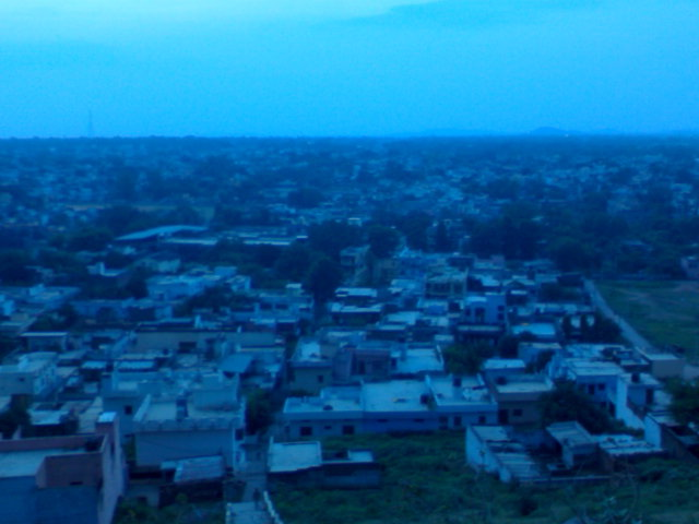 Jhansi as seen from Hill top.